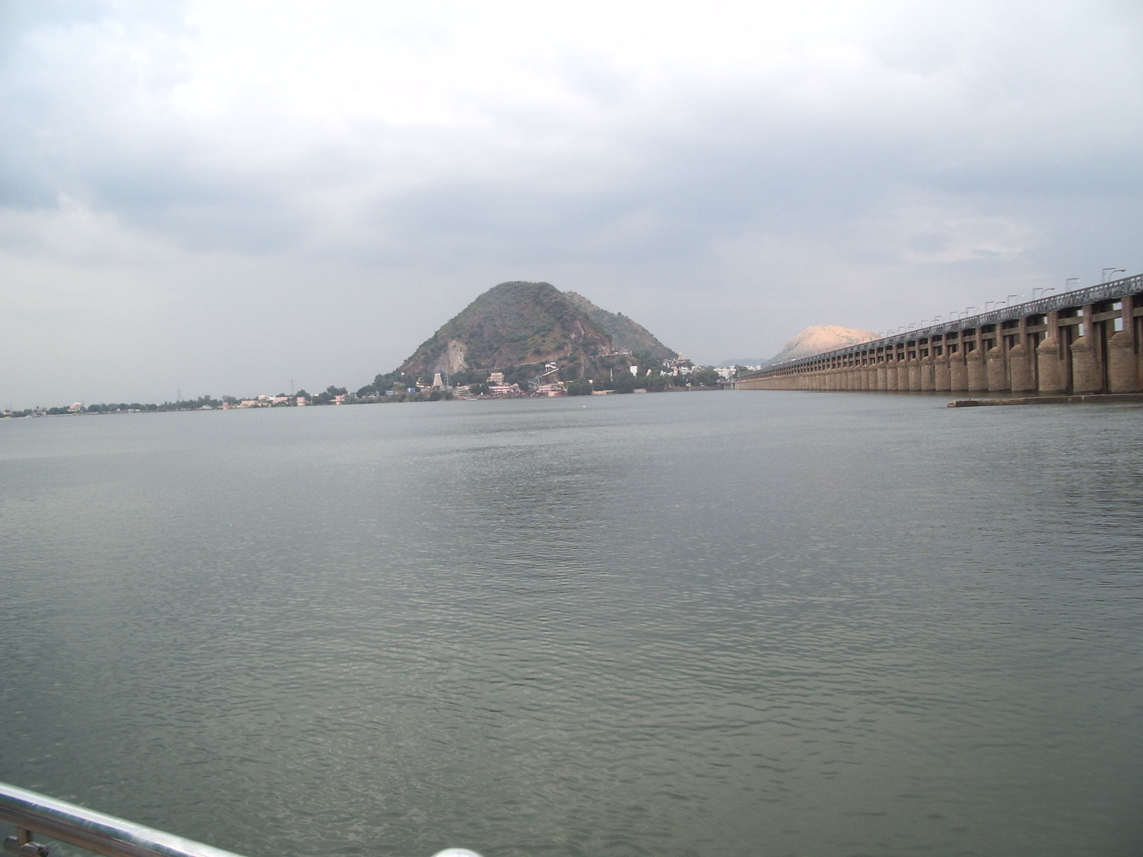 Prakasam Barriage, Vijayawada- Rear View of the reservoir